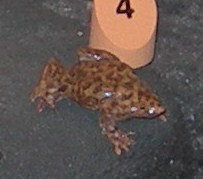 Hemisus marmoratus